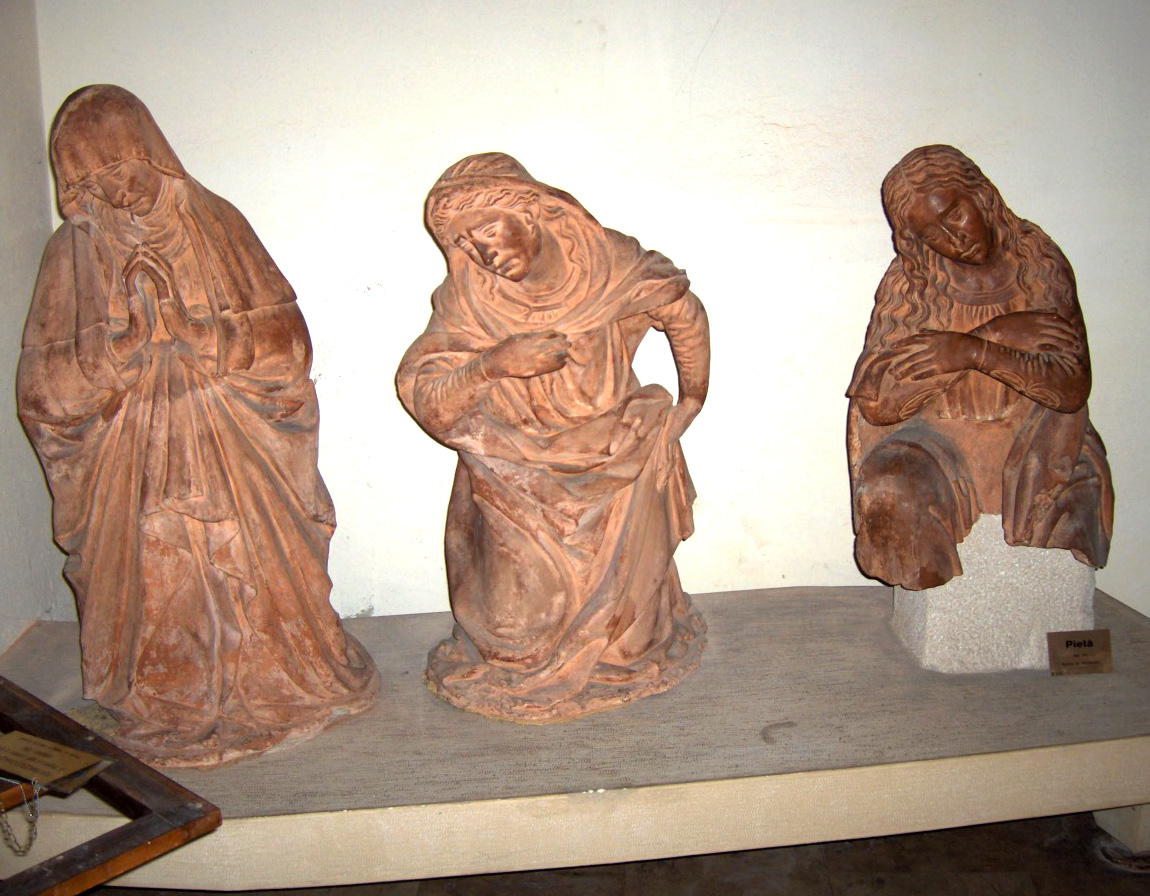 Pietà (1495) by Baccio da Montelupo; Museum of the Basilica of Saint Dominic, Bologna, Italy